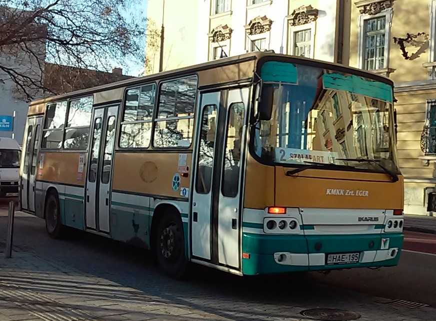 The single existed standard Ikarus C60 type bus.